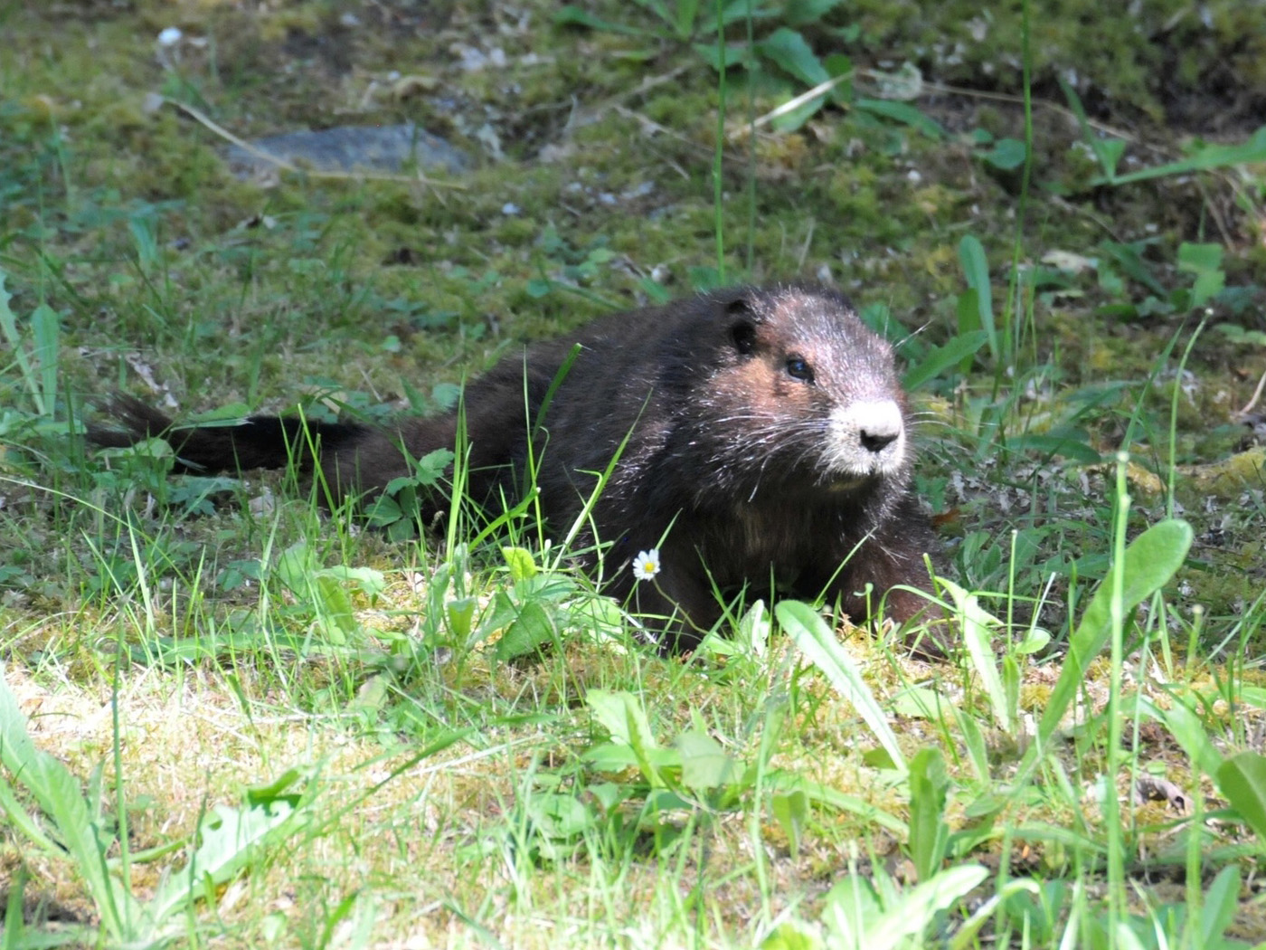 Vancouver Island Marmot (Marmota vancouverensis) in Alberni-Clayoquot Regional District, British Columbia, Canada